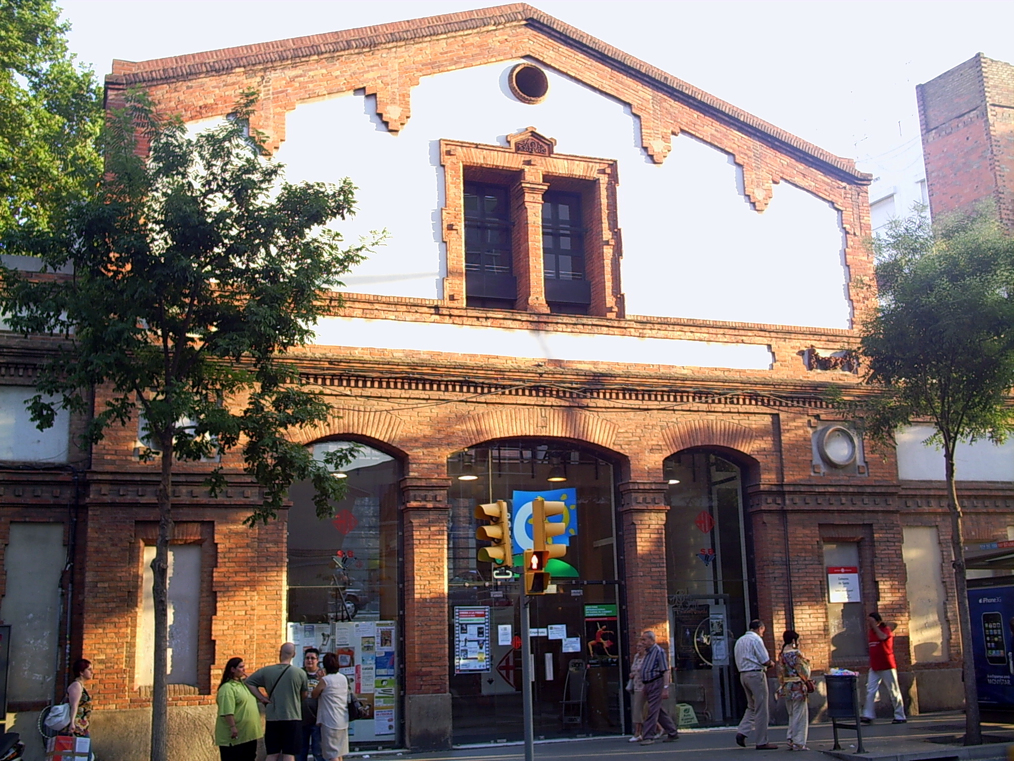 Cotxeres de Sants (Barcelona)